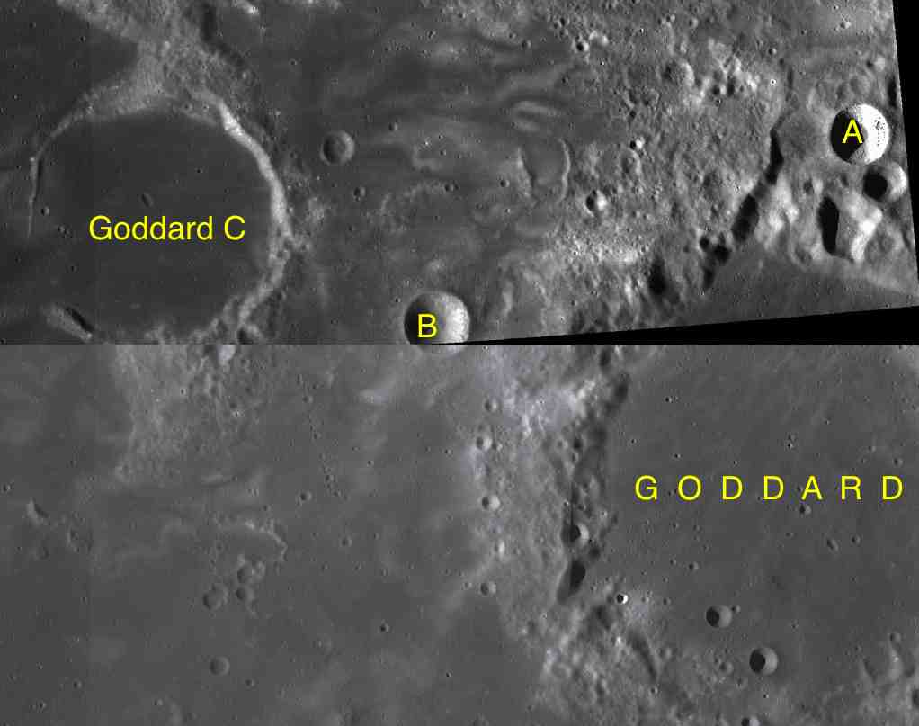 Parts of the charts LAC-45 and LAC-63 used for the presentation